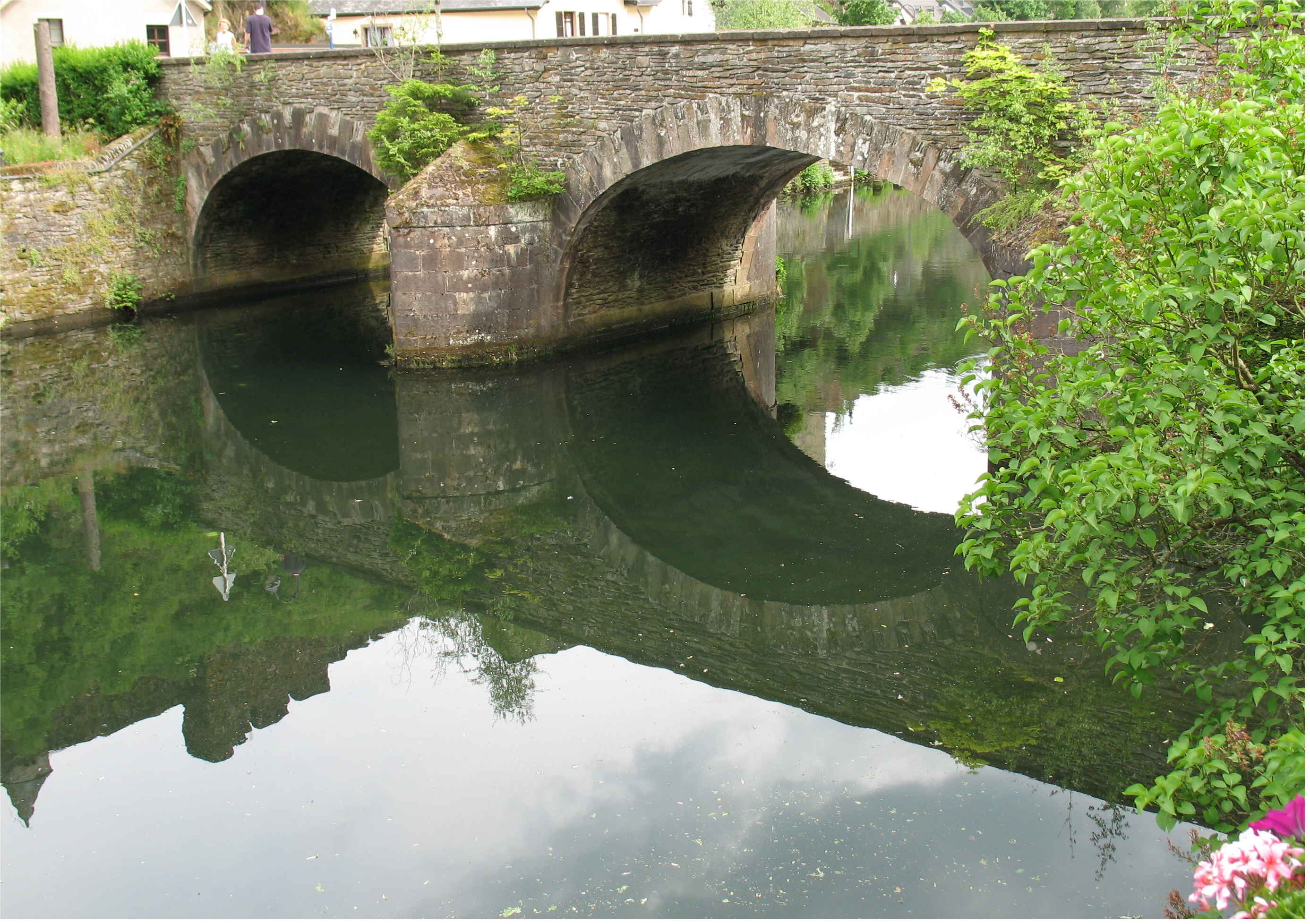 Bridge of Esch-Sauer in Luxembourg.